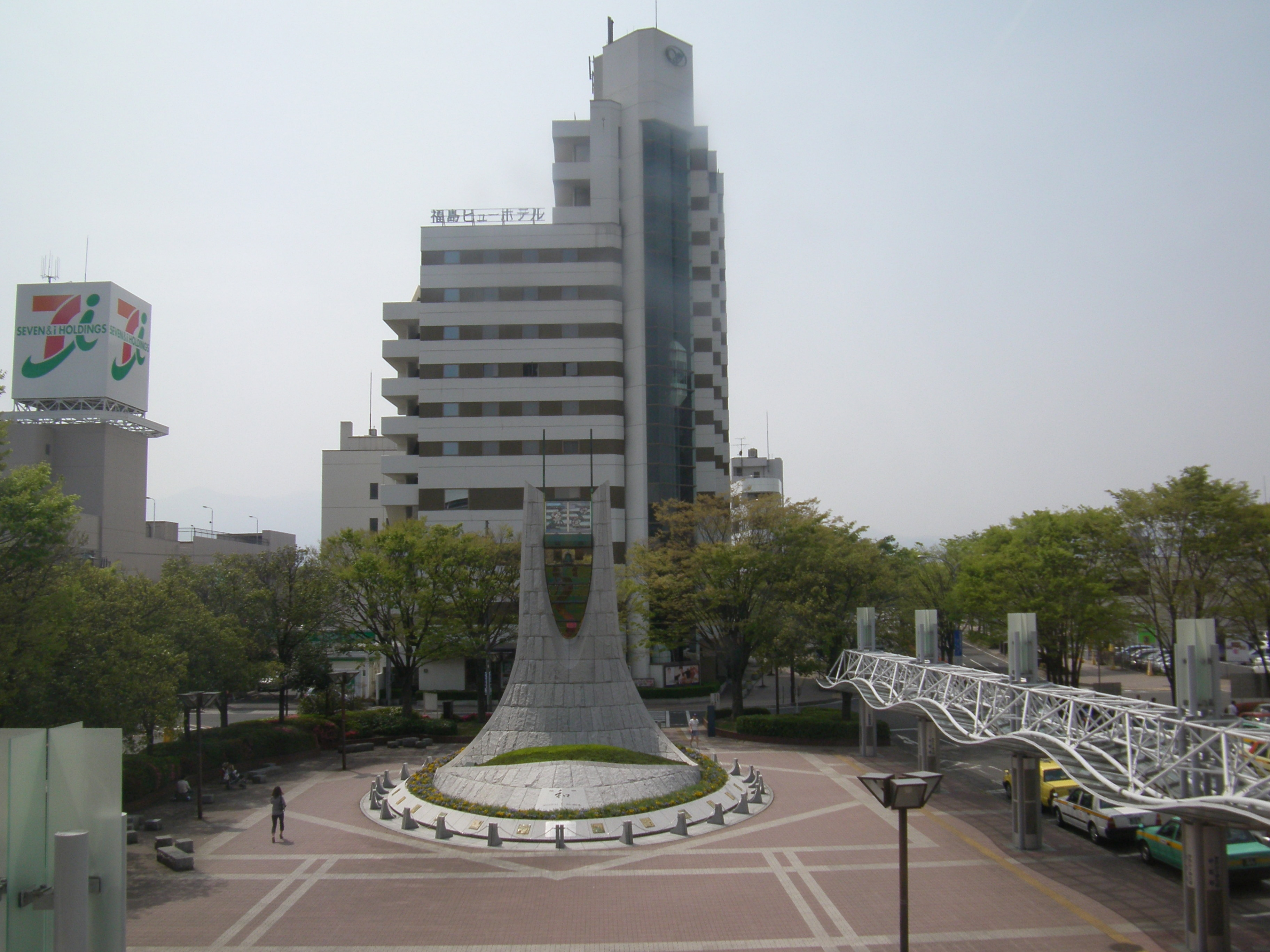 Fukusima View Hotel. Fukushima, Fukushima prefecture, Japan. Westward from the Fukushima Station.